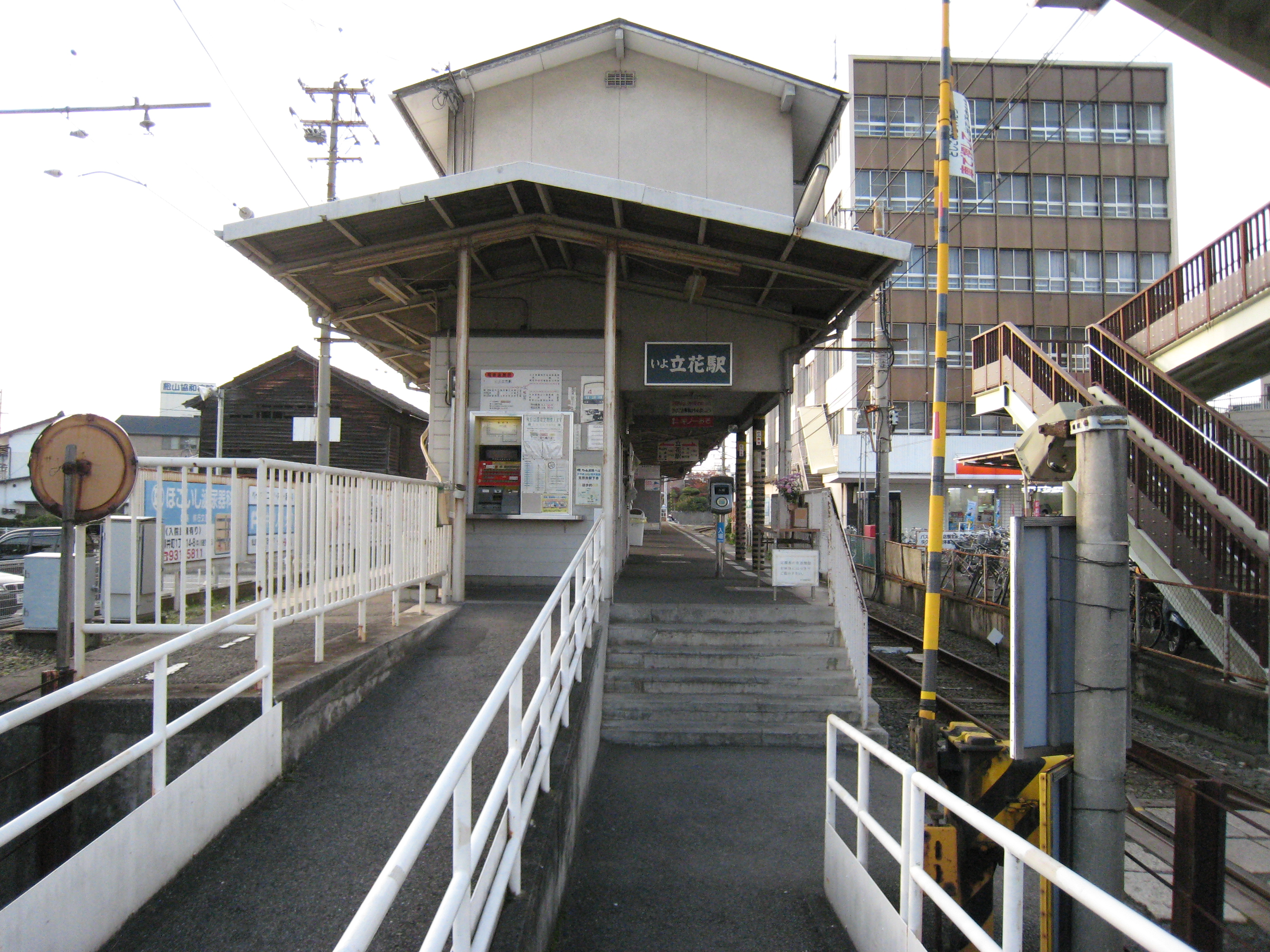 Iyo Railway [Sta.Iyotachibana]